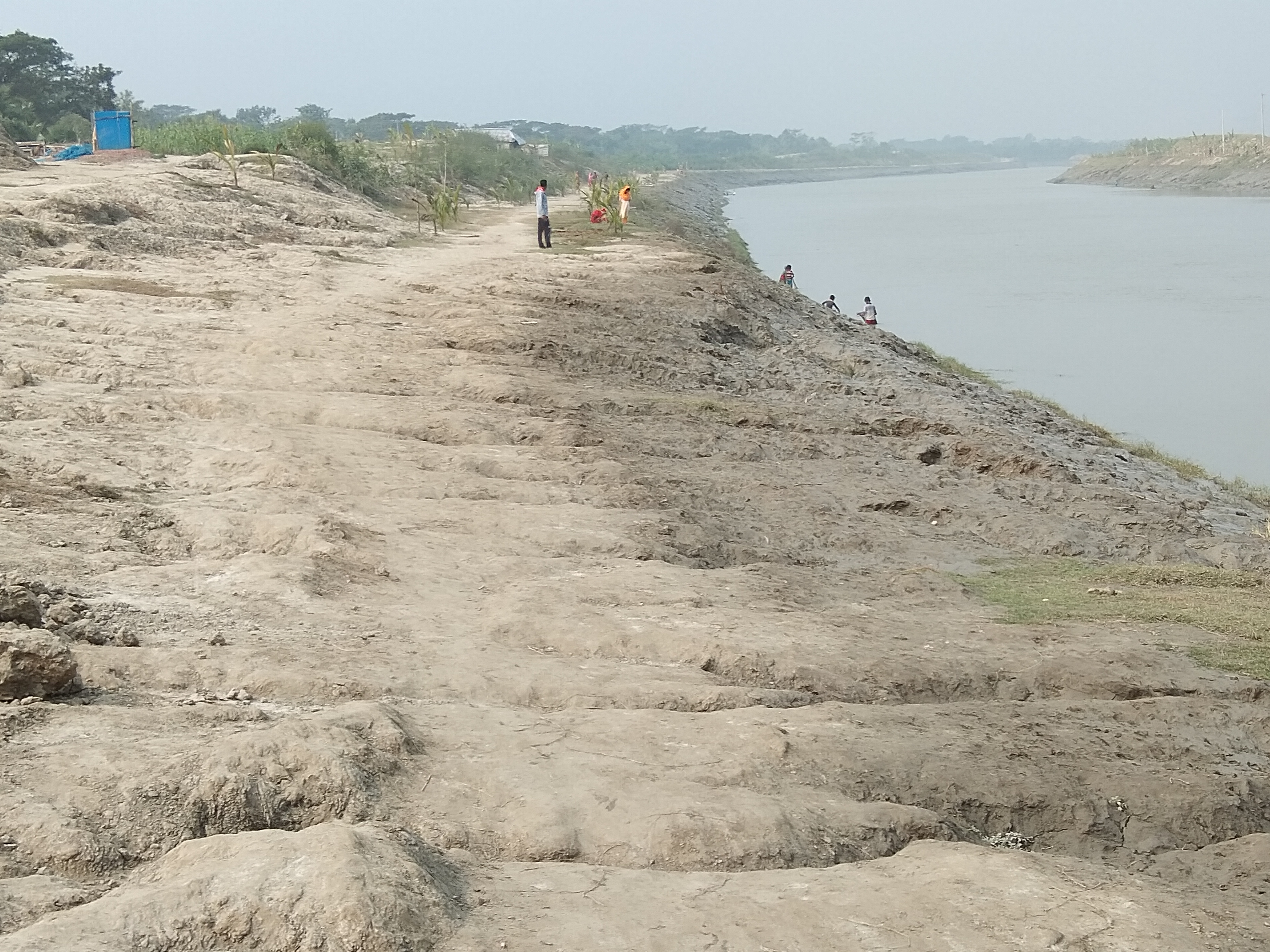 Vhodoranodi in Damuria